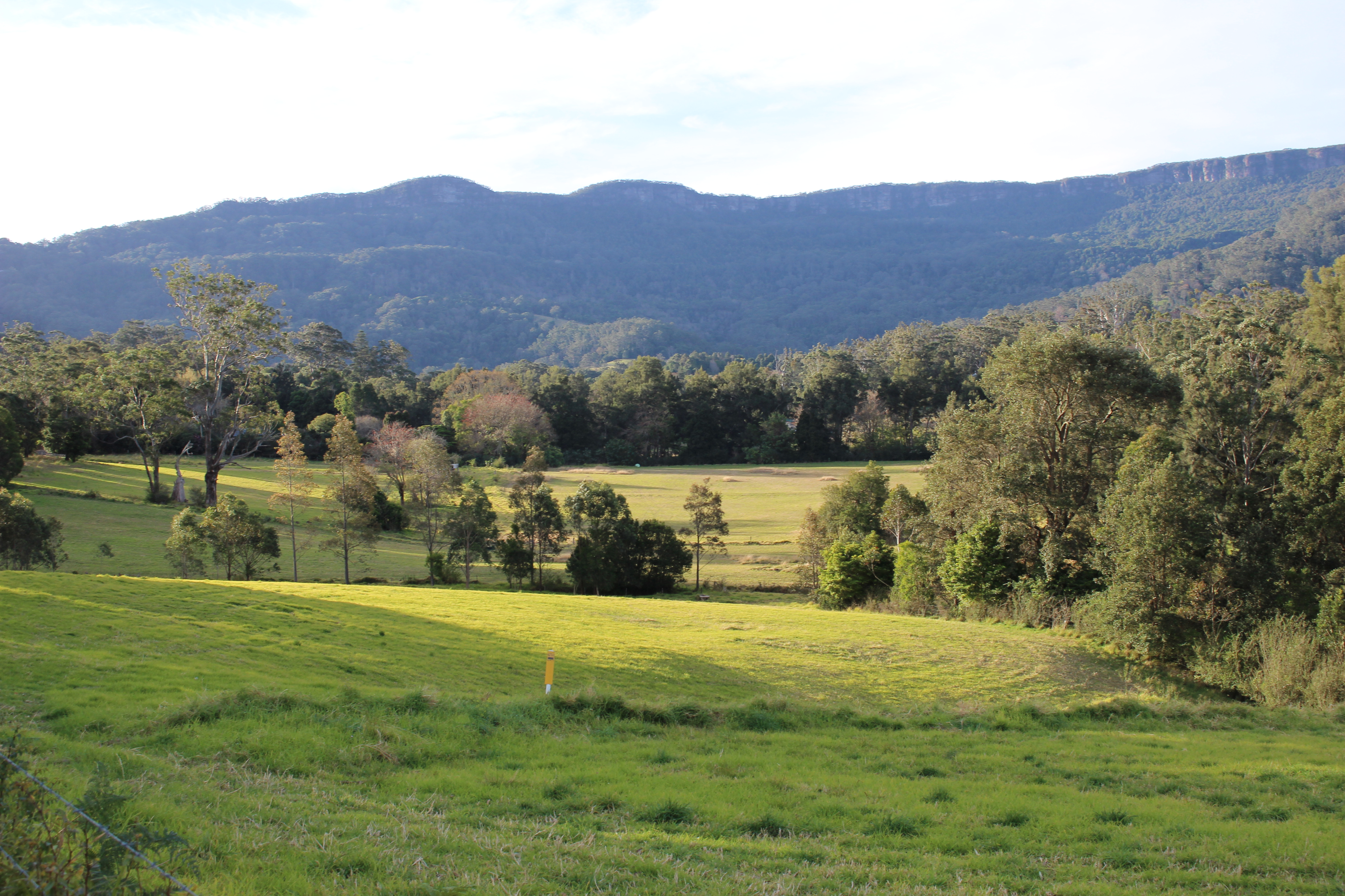 Broughton Vale, New South Wales, escarpment